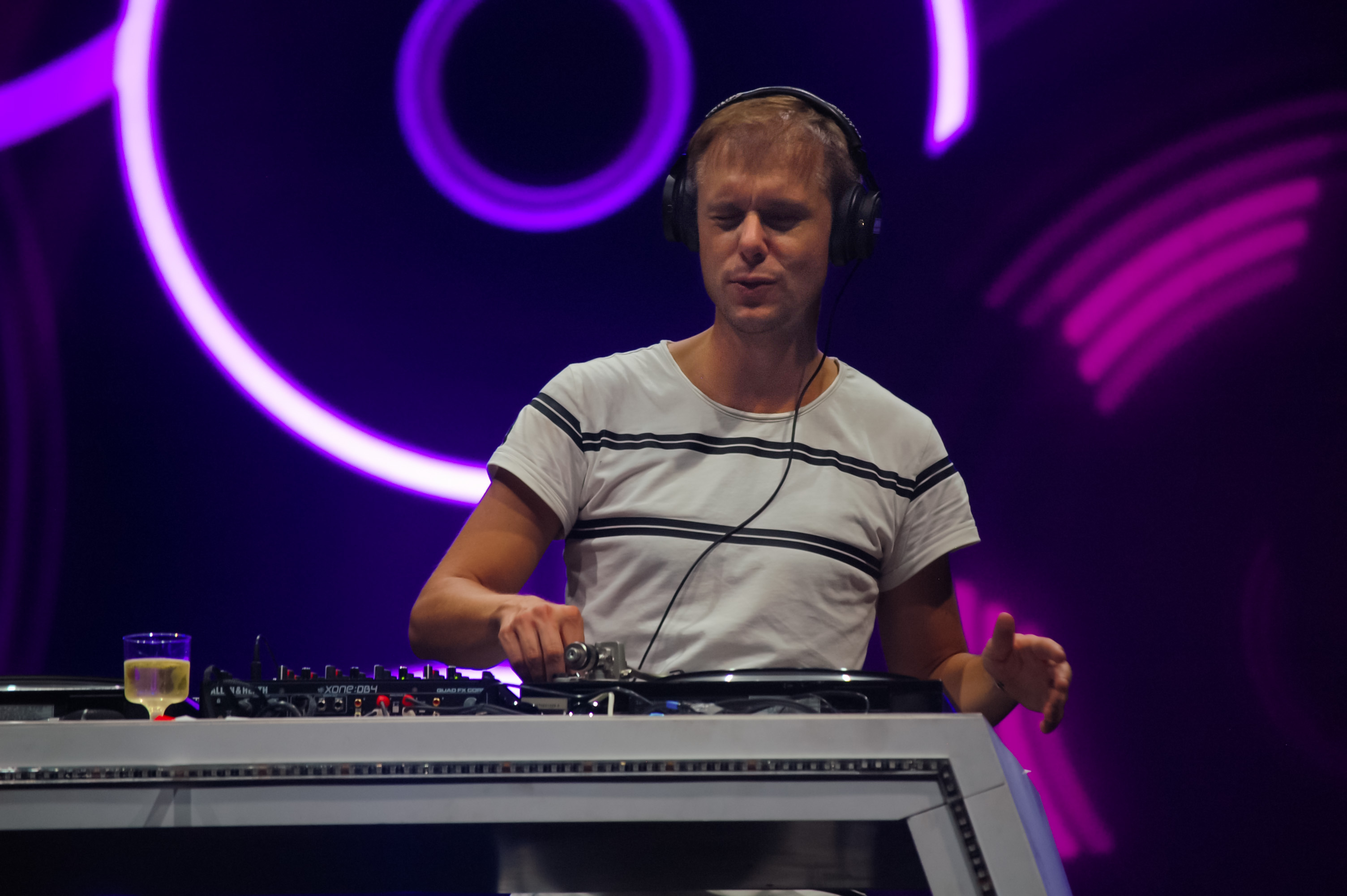 Armin Only Embrace @ IEC, Kyiv, Ukraine. 25.02.2017